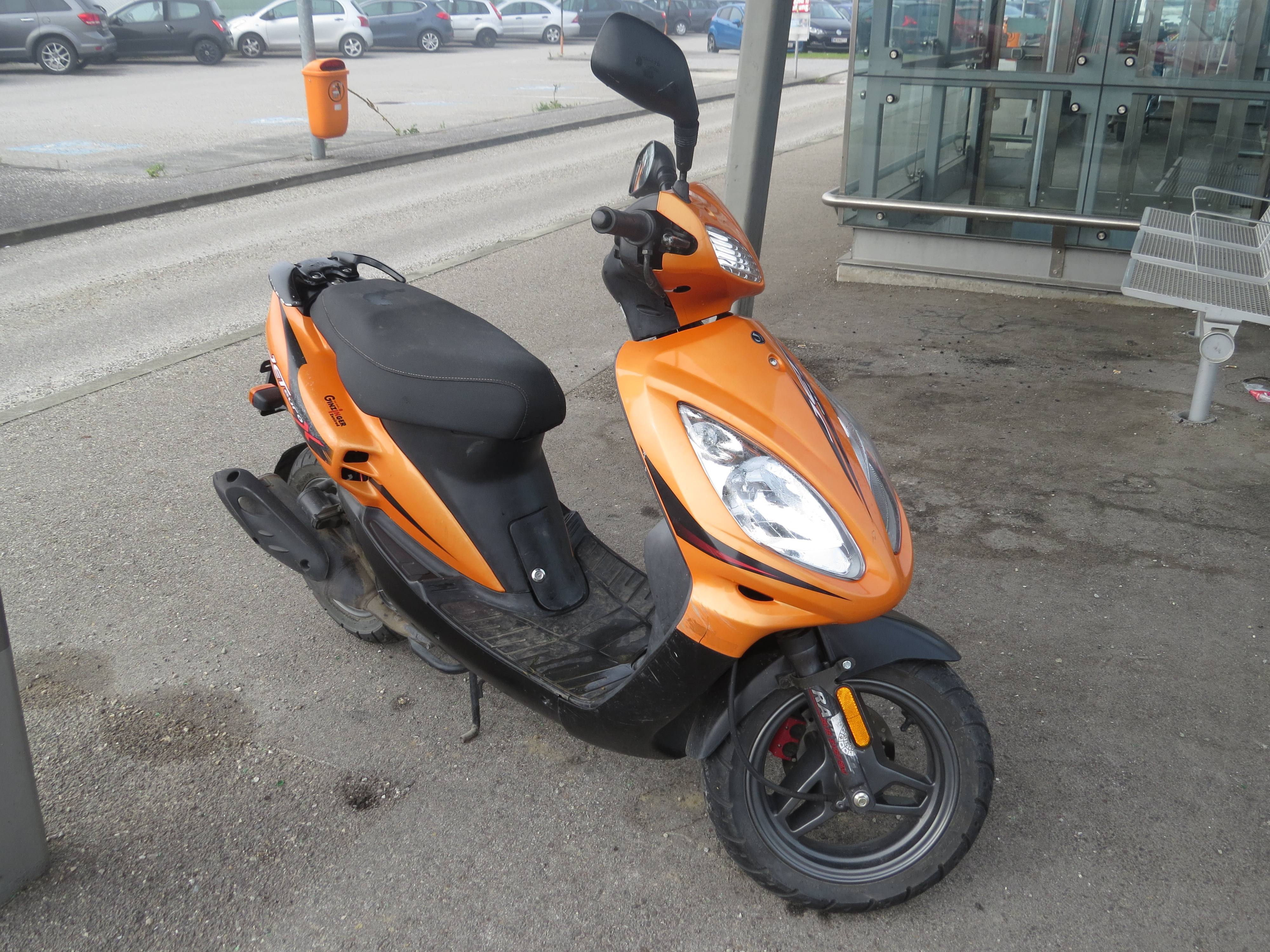 SYM Jet Euro X 50 at train station Pöchlarn, Austria